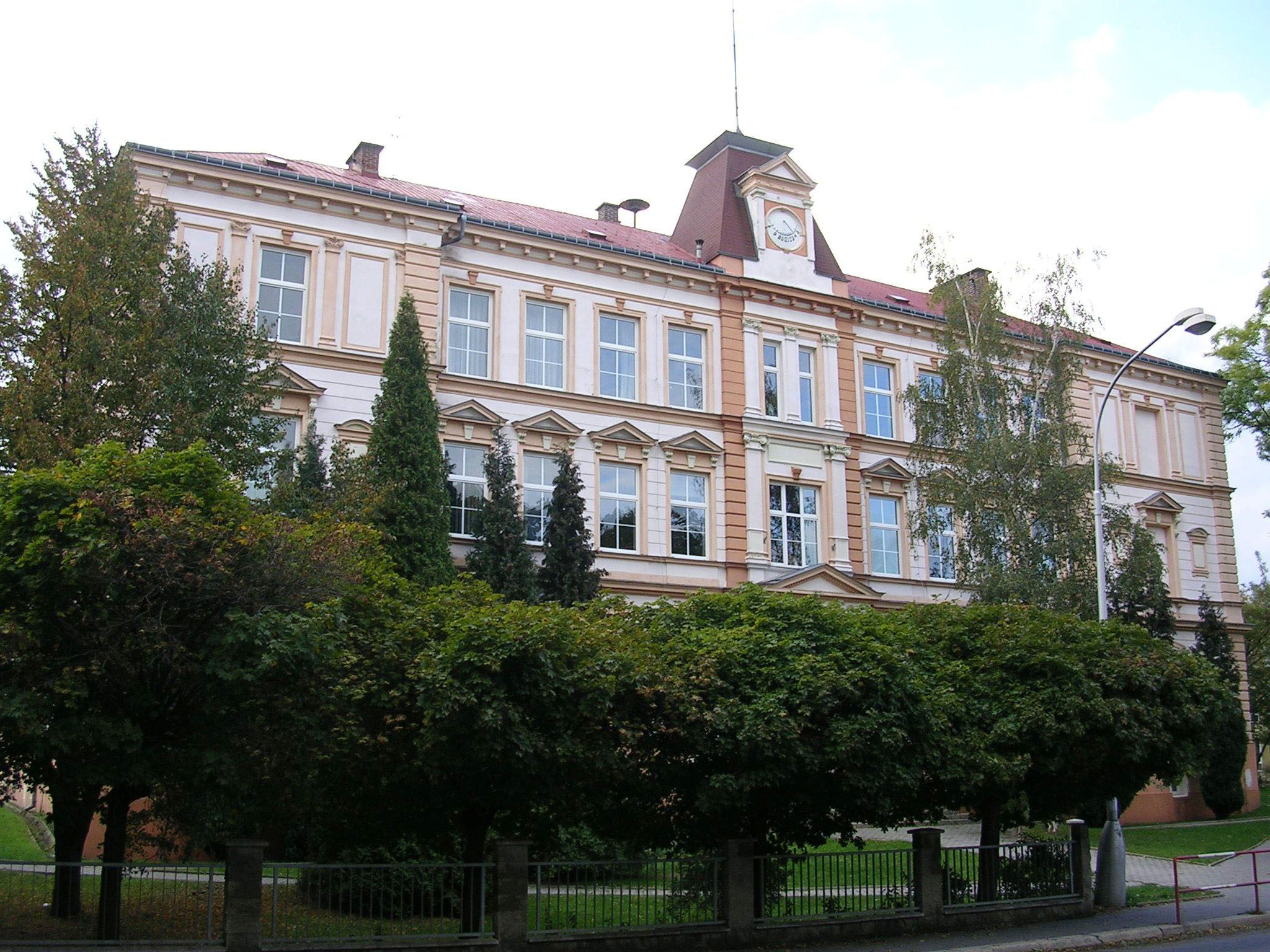 Liberec, Vratislavice nad Nisou, Tanvaldská street, a school.